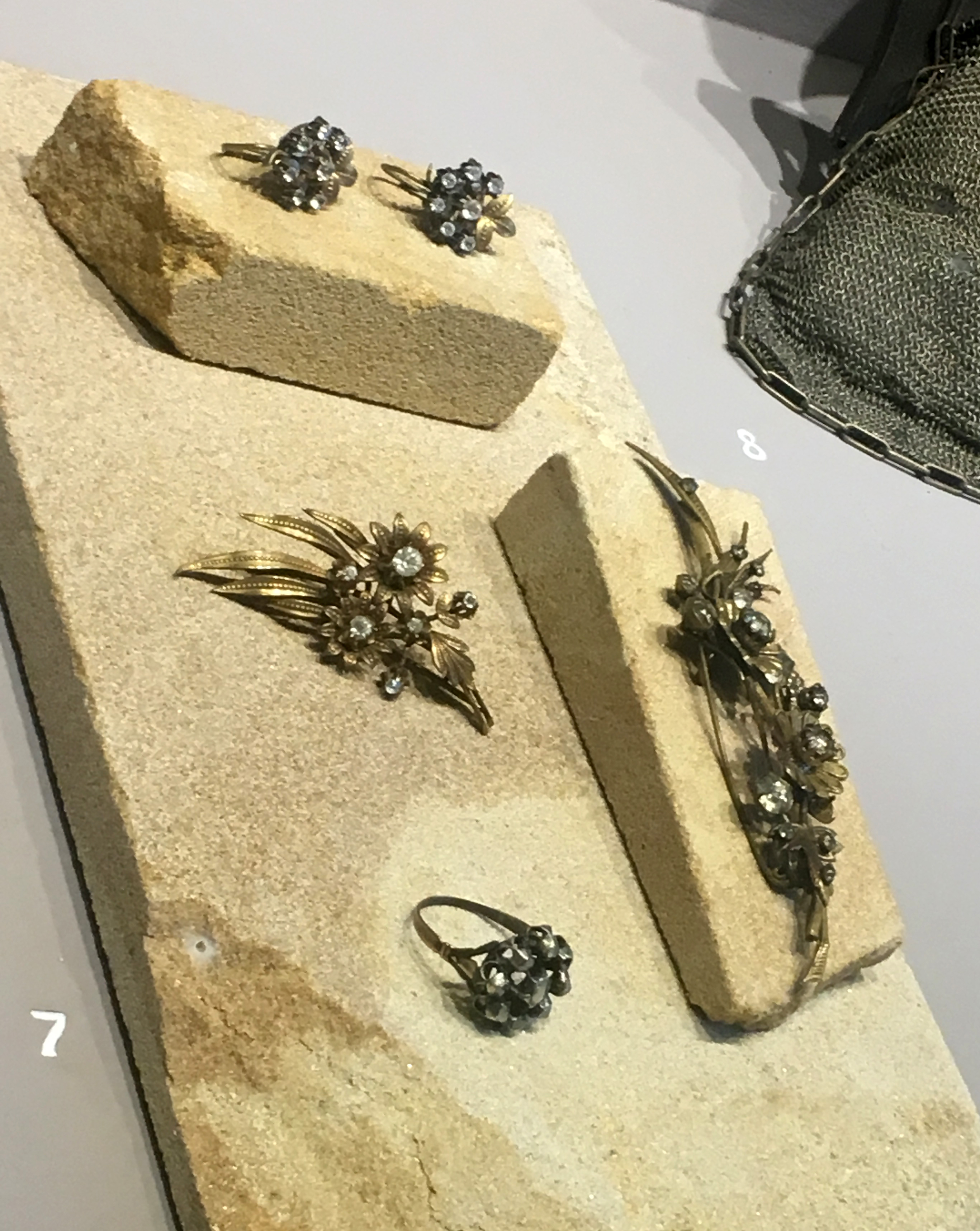 Brooches, rings and earrings are parts of civic folk costume. Collection of the National Museum in Krusevac.